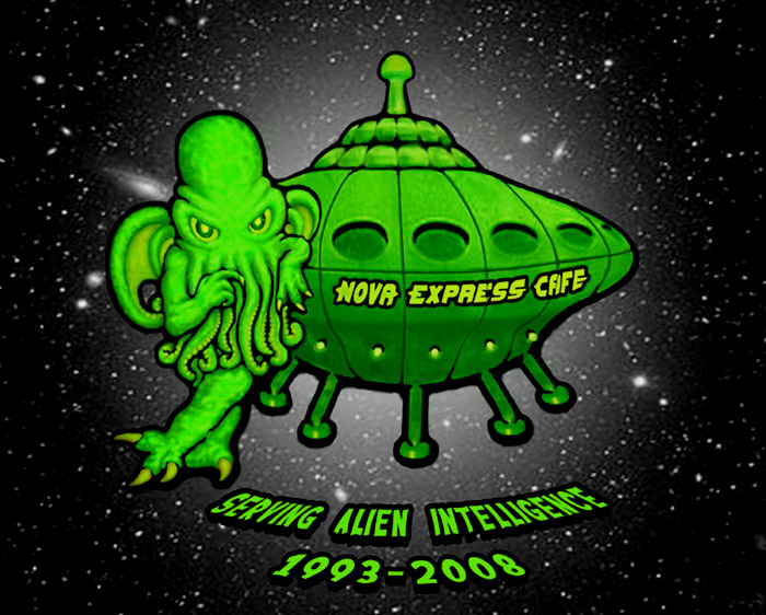 Digital Image created by Cary Lewis Long